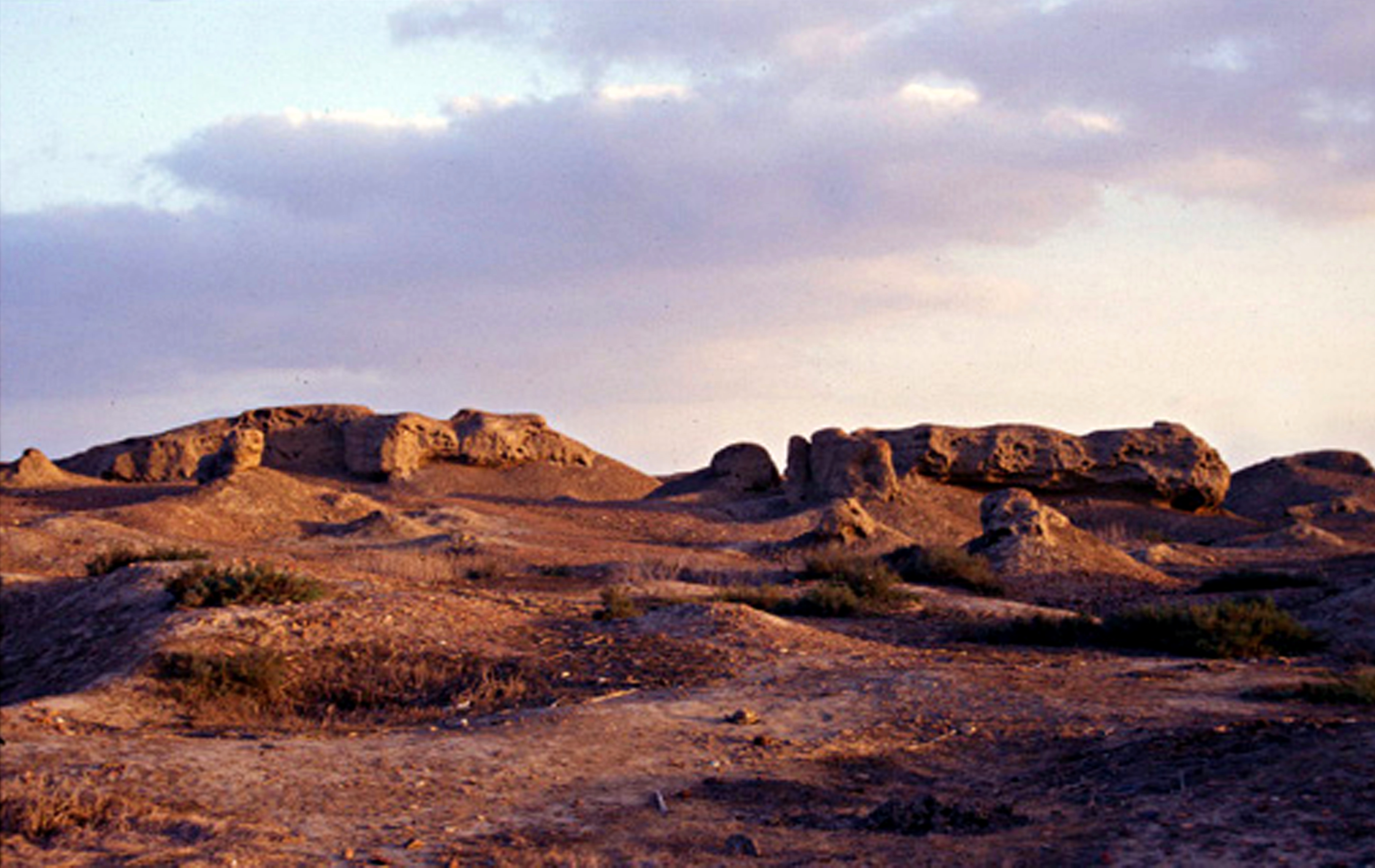 Ruins of mudbrick buildings on the northern mound of Buto-Desouk